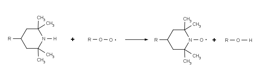 Hindered amine stabilizer: Formation of stable Nitroxyl Radicals.